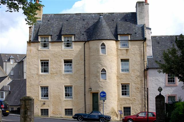 Robert Spittal's House Situated on Spittal Street, this house was founded in 1530 by Robert Spittal, tailor to James IV, to support the poor.